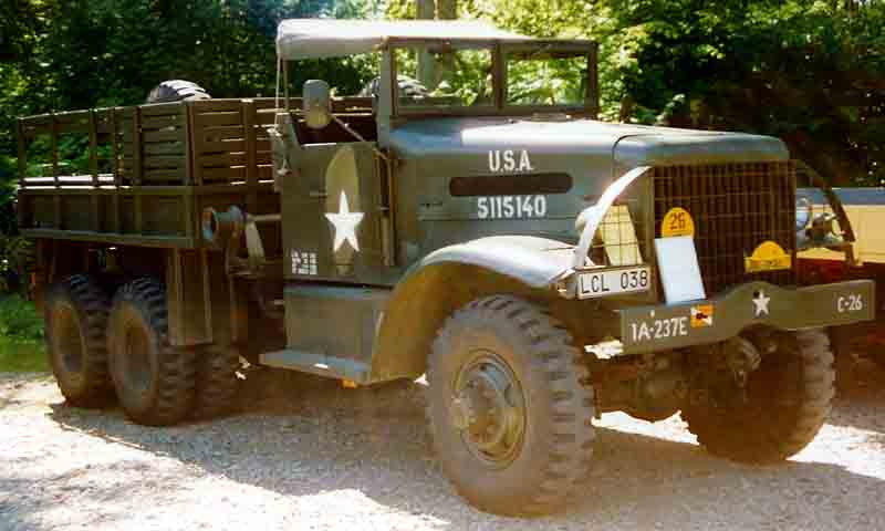 White 666 Truck 1941